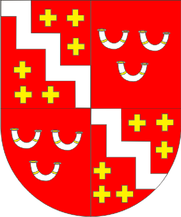 coats of arms of the lordship of Winneburg-Beilstein, 1,4: lordship of Winneburg; 2,3: lordship of Braunshorn-Beilstein